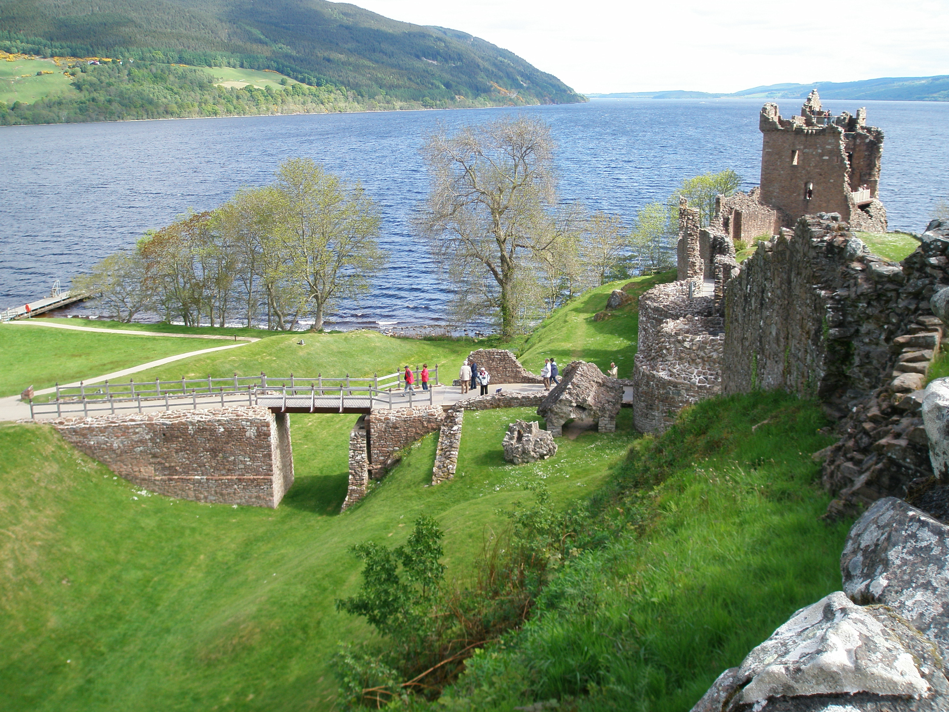 View on Loch Ness from Urquhart castle